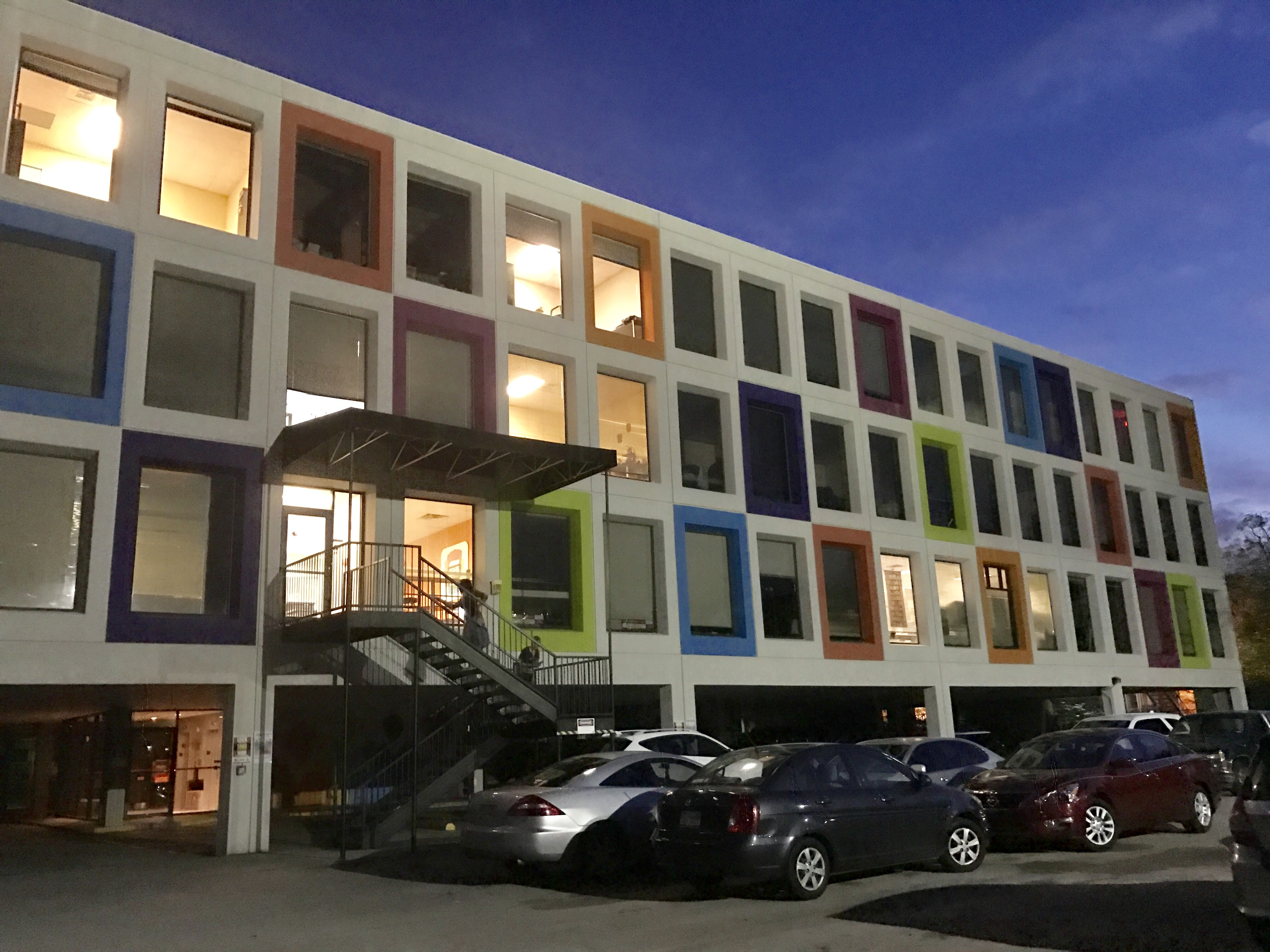 A picture of the rainbow colored windows at the Montrose Center in Houston, Texas